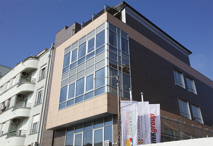 Savremena International School - exterior